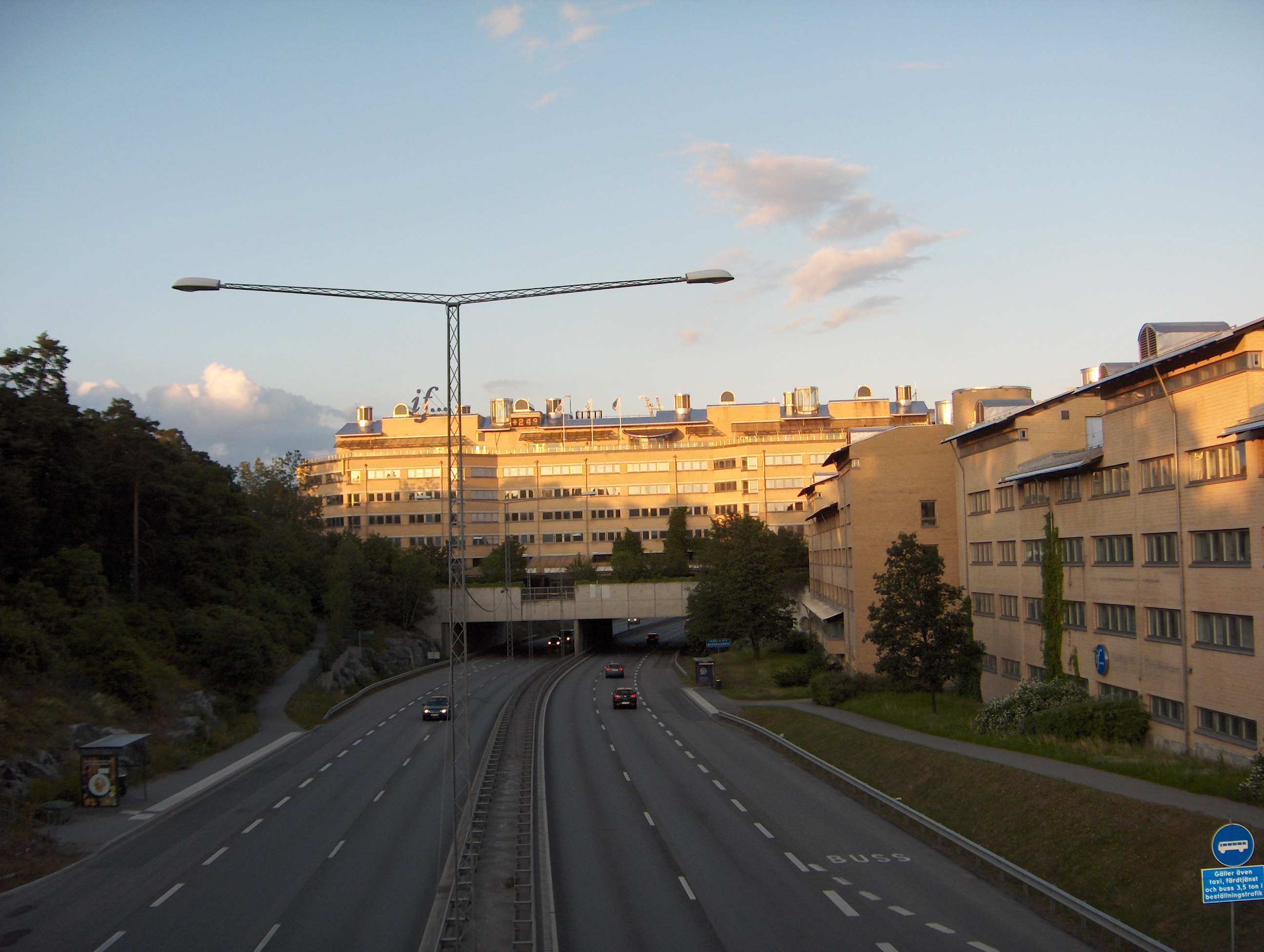 Bergshamra bro (Bergshamra bridge) crossing the Bergshamra expressway in Solna, Sweden.